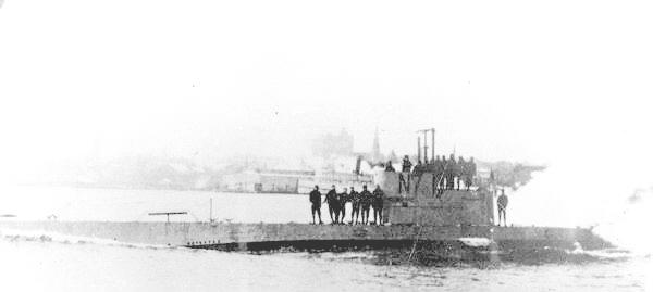 A photo of the USS N-7 (SS-59) submarine. Source